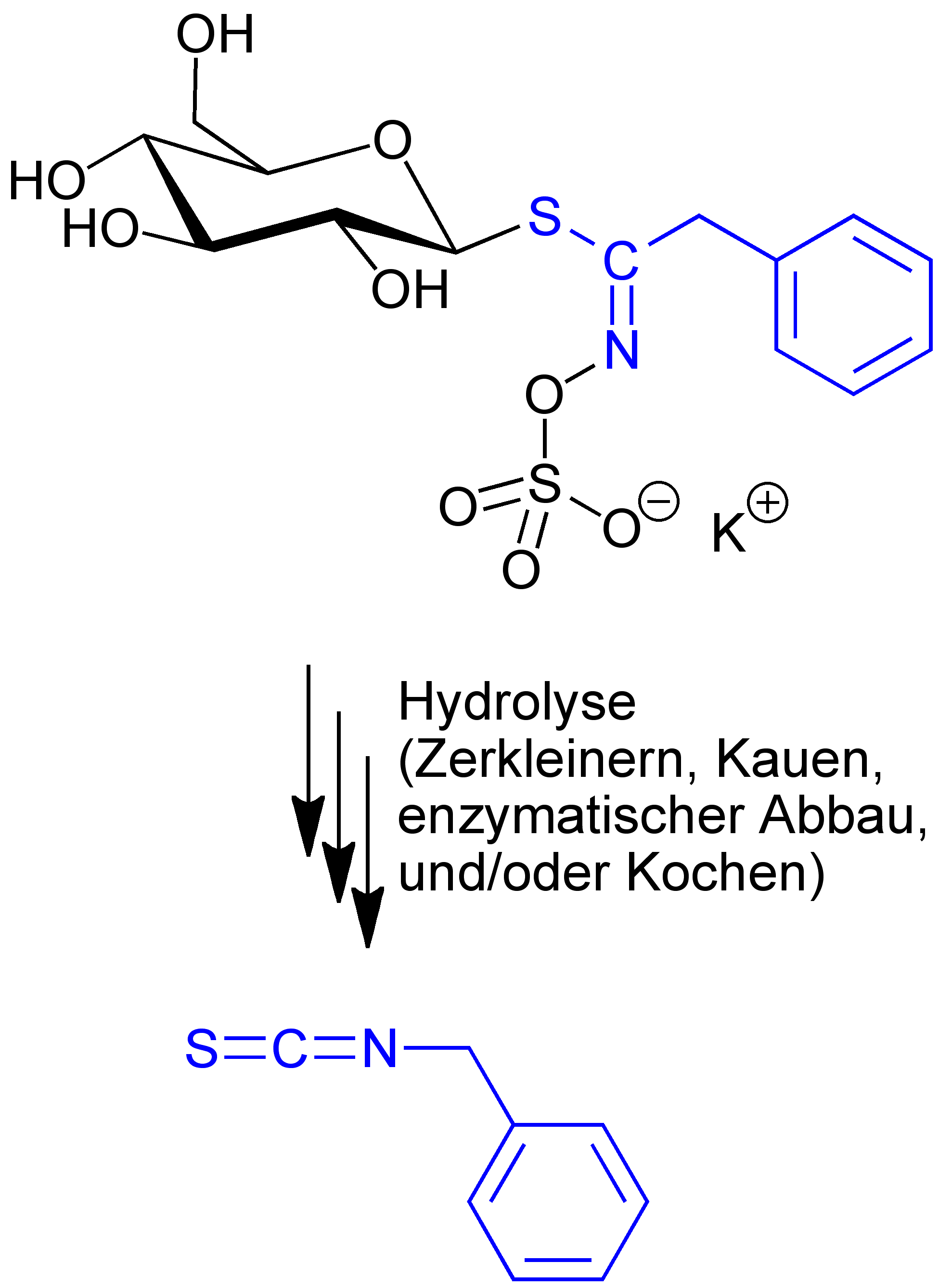 Thioglycoside_to__Benzyl_Isothiocyanate (Transformation)